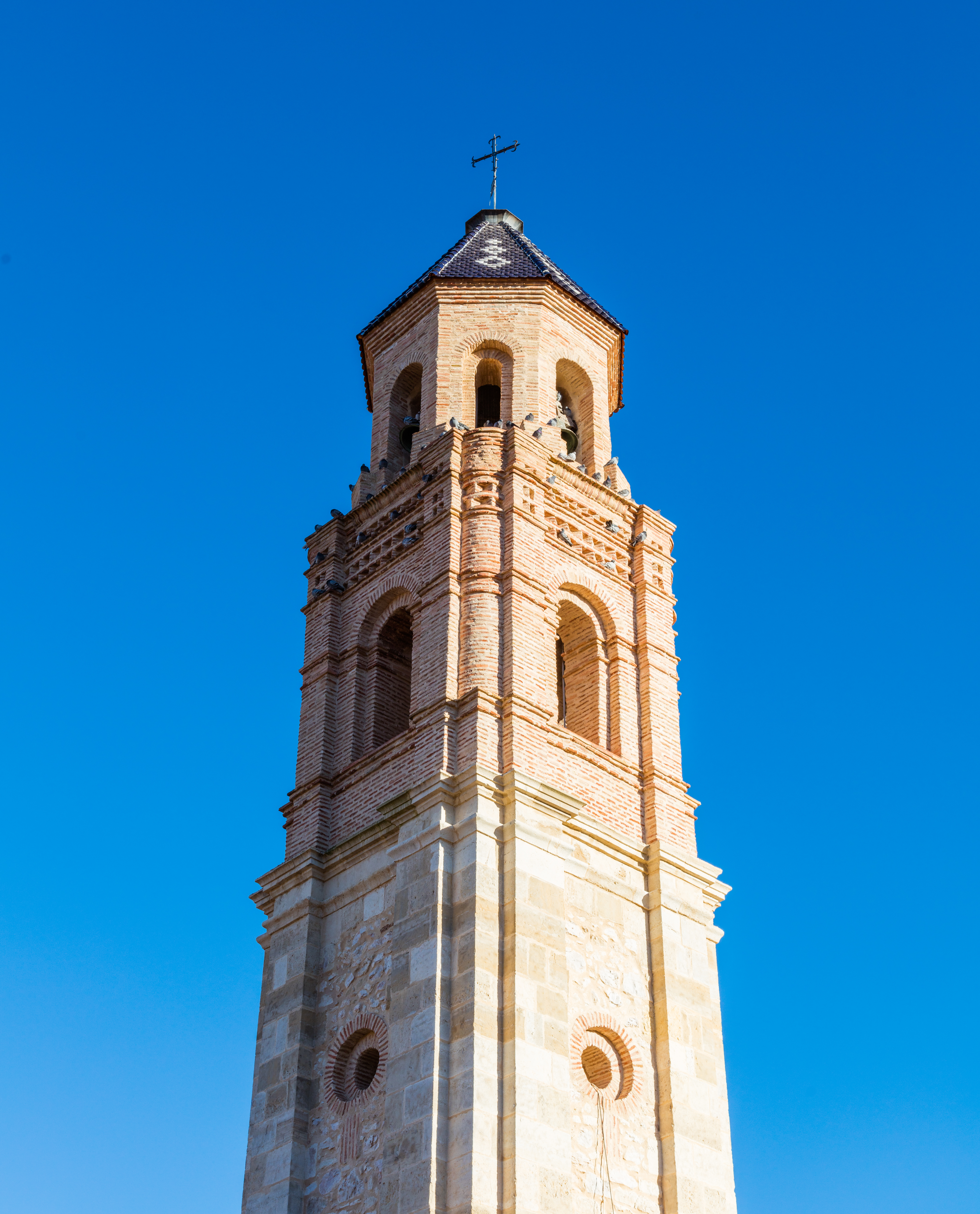 Hermitage of St Lucía, Campillo de Aragón, Saragossa, Spain